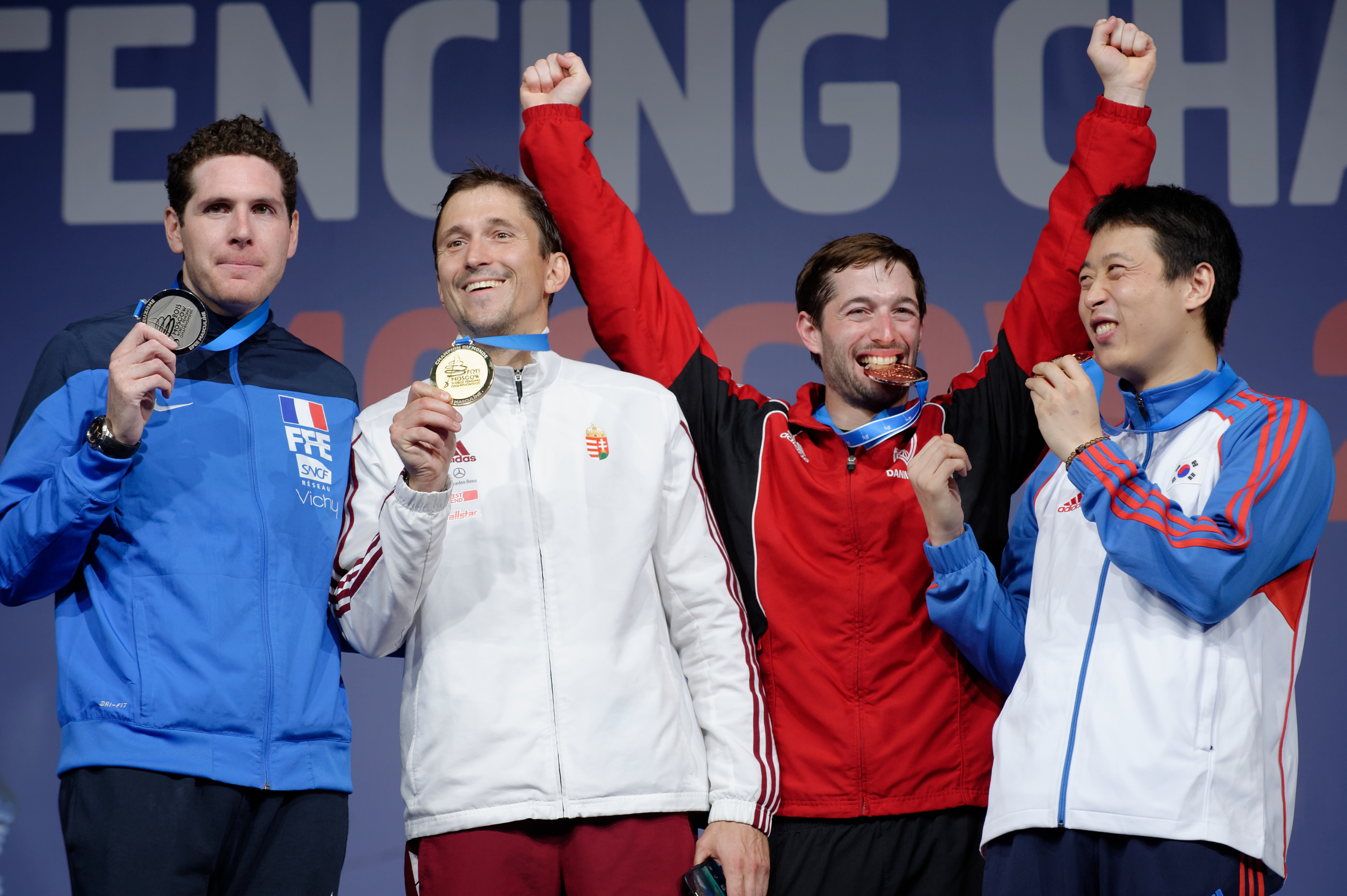 Podium of the men's épée event (from left to right, Gauthier Grumier, Géza Imre, Patrick Jørgensen and Jung Seung-hwa) at the 2015 World Fencing Championships on 15 July 2014 at the Olympic Stadium in Moscow.